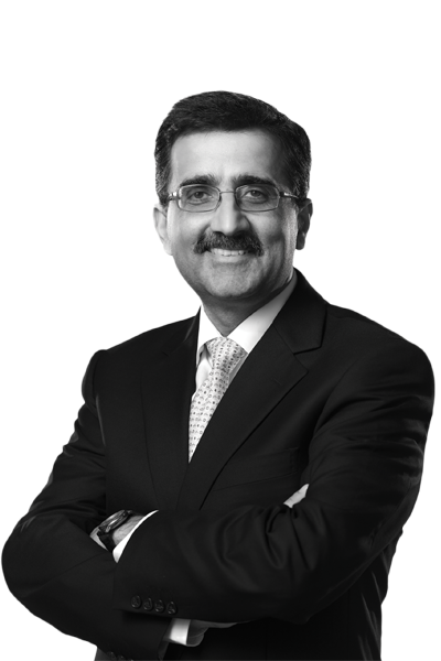 CEO Photo